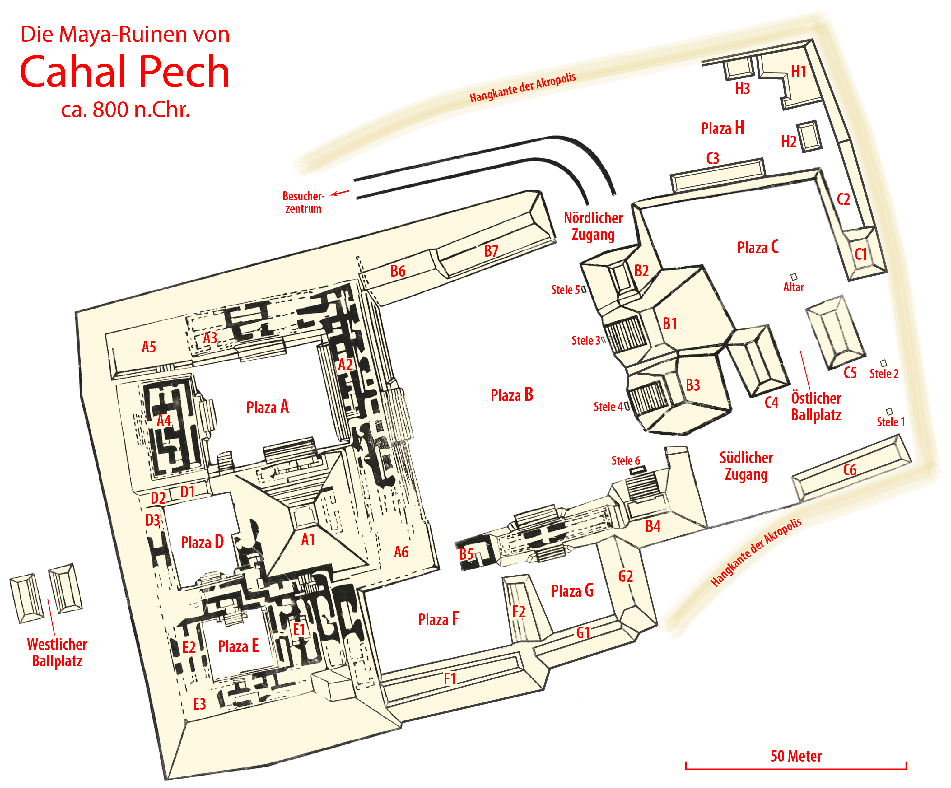 Map of th Maya ruins of Cahal Pech in Belize